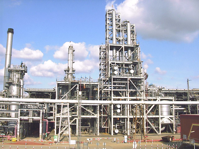 Naphtha Minus Complex The Naphtha Minus Complex was built in 1992. It was demolished in 2002.